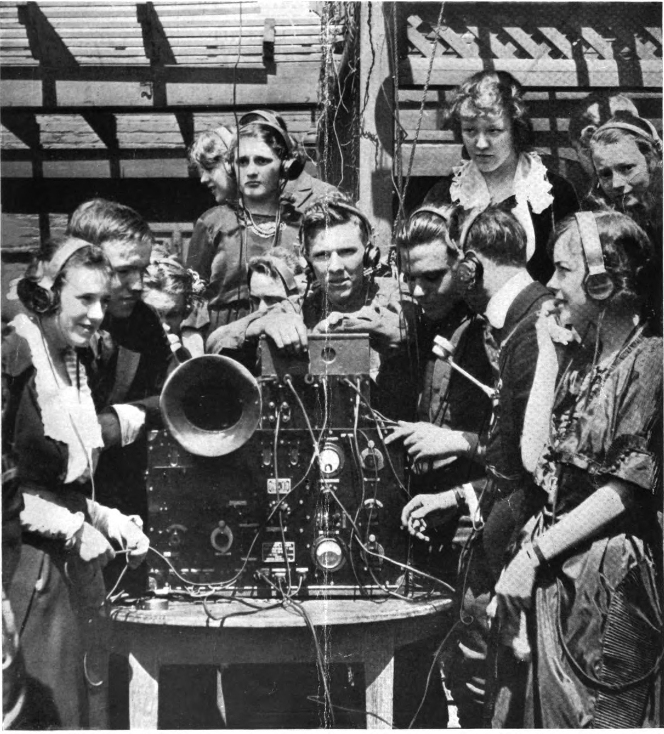 A "radiophone dance" held by an Atlanta social club in May 1920 in which the participants danced wearing earphones to music transmitted from a band across town. Practical AM radio transmission of sound was made possible by the development of vacuum tube transmitters and receivers during World War 1, and by 1920, after the war, the first radio stations began experimenting with broadcasting of news and music. Radio listening exploded into a hugely popular high-tech pastime and a "radio mania" swept the country, inspiring novelty stunts like this. The Club De Vingt of Atlanta, Georgia held the dance in the roof ballroom of the Capital City Club, to music played by the Georgia Tech Band into a transmitter two miles away. The radio equipment was set up by Sergeant Thomas Brass of the Georgia Tech signals unit of the Reserve Officer's Training Corps. The music was played by a vacuum tube receiver (center) on the dance floor, but the weak audio amplifier and horn loudspeaker of the receiver, designed for individual listening, was not loud enough to be heard throughout the ballroom by the 500 club members, so the dancers farther away from the radio were provided with earphones as shown, on long cords, so they could hear the music as they danced. Caption: Members of an Atlanta club who danced to music received by wireless 'phone Alterations to image: partially removed aliasing artifacts (crosshatched lines) caused by scanning of original halftone photo using Gimp FFT filter.